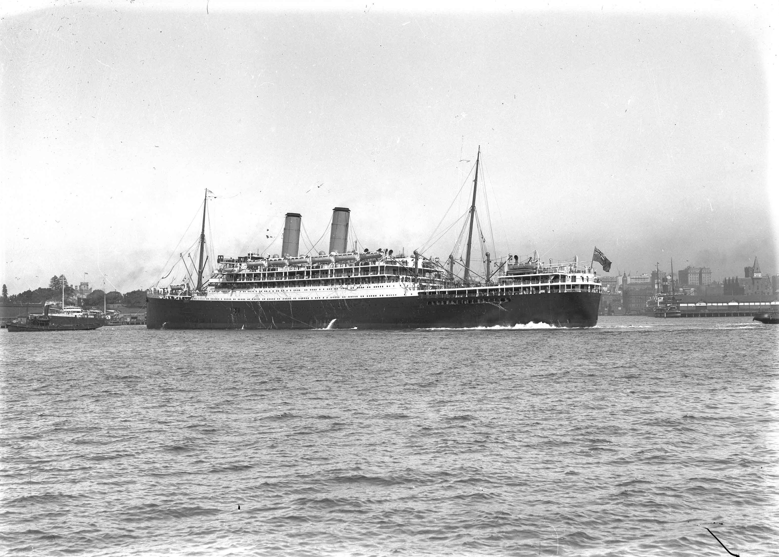 This photo is part of the Australian National Maritime Museum’s Samuel J. Hood Studio collection. Sam Hood (1872-1953) was a Sydney photographer with a passion for ships. His 60-year career spanned the romantic age of sail and two world wars. The photos in the collection were taken mainly in Sydney and Newcastle during the first half of the 20th century. If reproduced or distributed, this image should be clearly attributed to the collection of the Australian National Maritime Museum; and not be used for any commercial or for-profit purposes without the permission of the museum. For more information see our Flickr Commons Rights Statement. The ANMM undertakes research and accepts public comments that enhance the information we hold about images in our collection. This record has been updated accordingly. Photographer: Samuel J. Hood Studio Collection Object no. 00035968 Note: This photograph was taken sometime between 1924 and 1939.